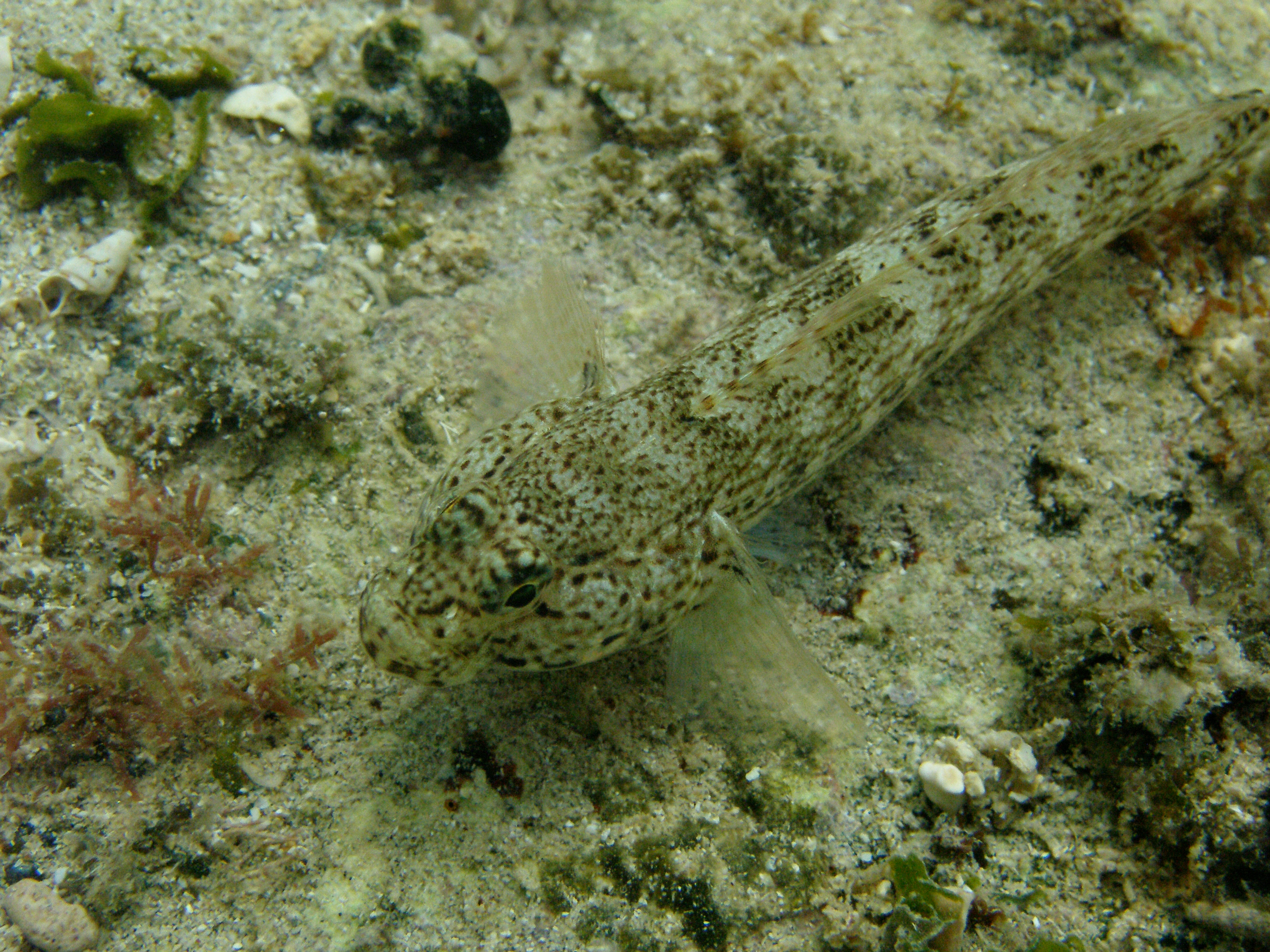 Gobius incognitus